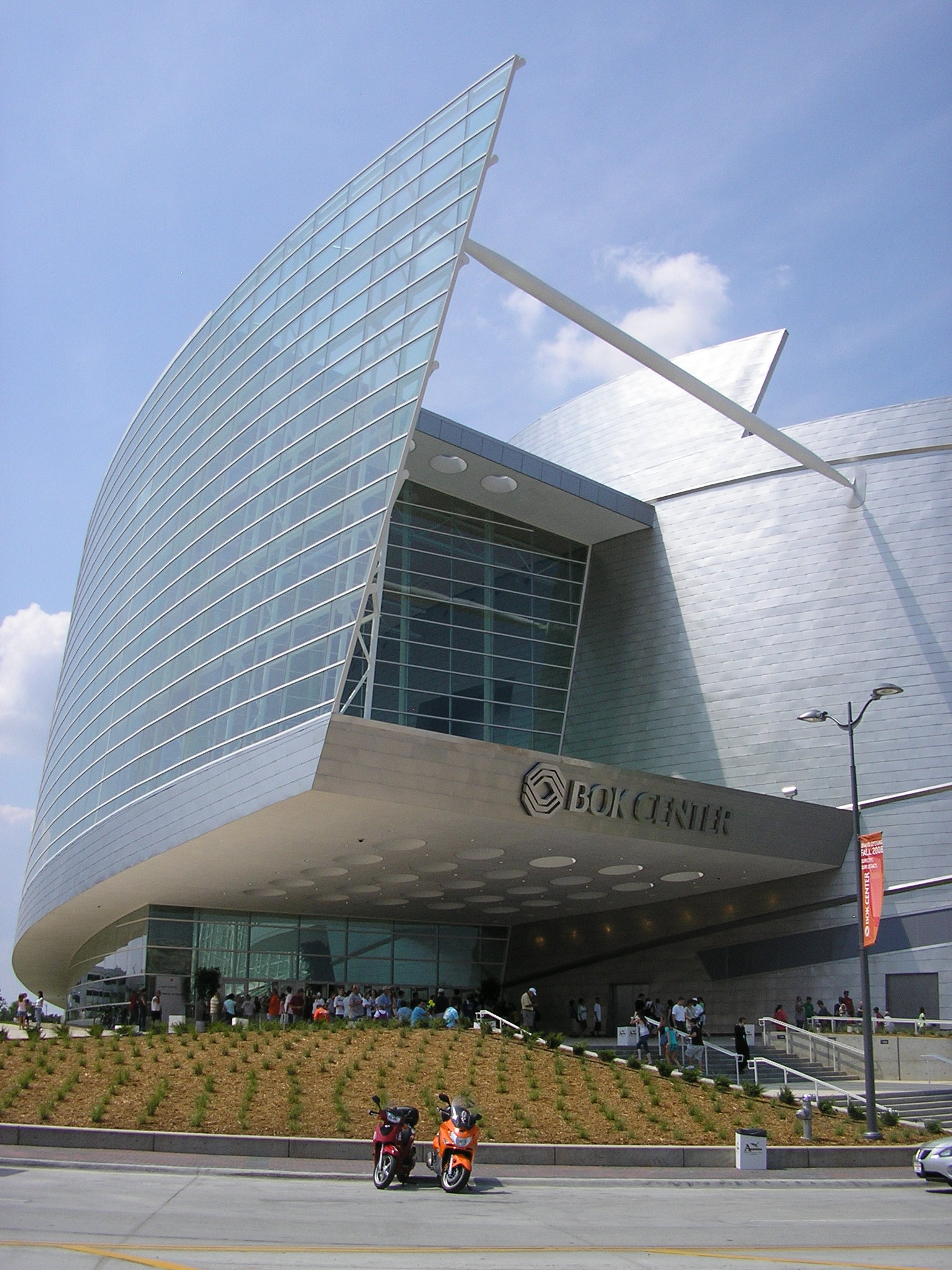 Outside of the BOK Center in Tulsa, Oklahoma